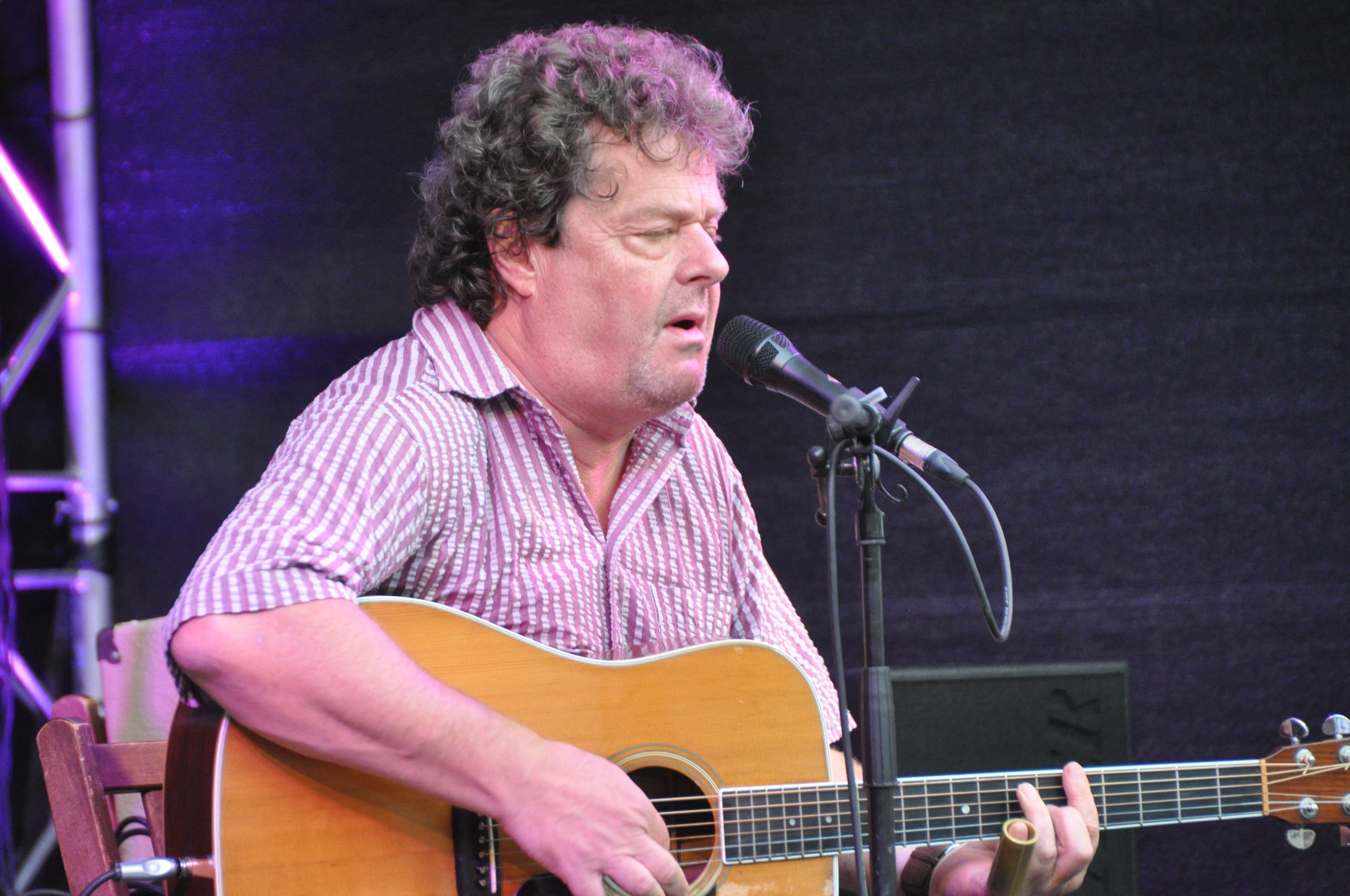 Netzer & Scheytt, appearence at the 1st blacksheep festival in the castle yard / castle park of Bad Rappenau - Bonfeld (Germany)